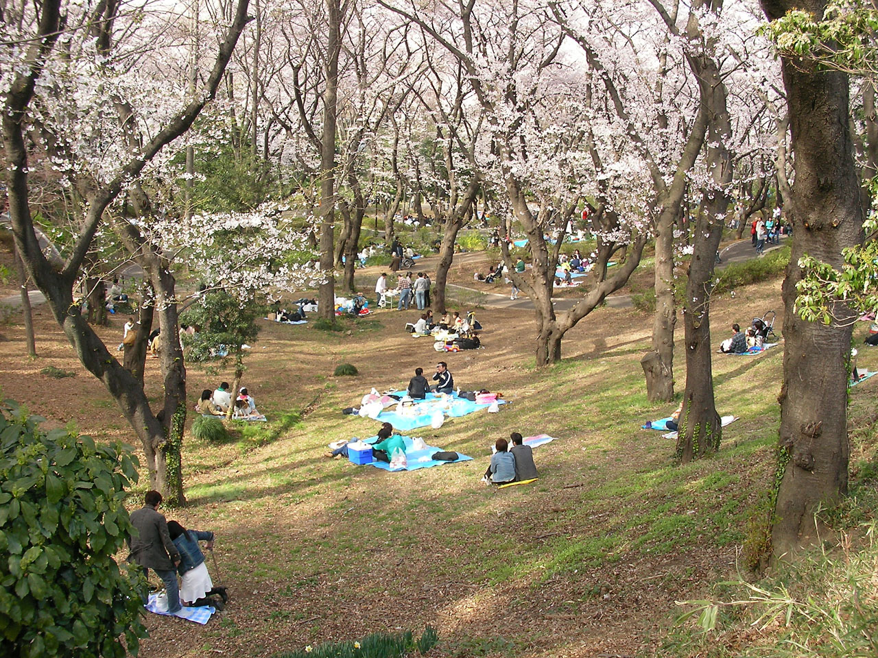 Cherry blossoms in Mitsuzawa-park at Yokohama, Japan.